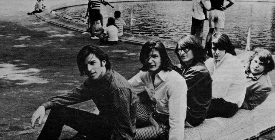 Photo of the music group The Vagrants.